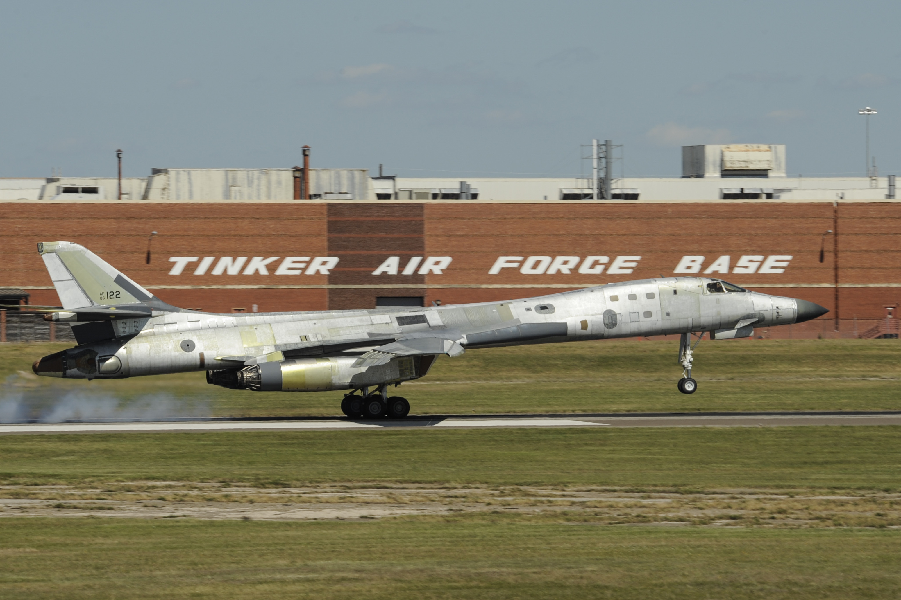 A mostly natural metal Boeing B-1B Lancer is shown moments after the main landing gear tires have touched the runway at the end of a post-maintenance check-flight with the 10th Flight Test Squadron, Air Force Reserve Command, June 20, 2017, Tinker Air Force Base, Oklahoma. The large building behind the B-1B is building 3001, a former Douglas Aircraft manufacturing plant during World War II, now used by the Oklahoma City Air Logistics Complex and its parent organization the Air Force Sustainment Center. The B-1B is being flown by a highly-experienced crew from the 10th FLTS to ensure the aircraft and systems are fully functional following depot level maintenance conducted at the OC-ALC. Once the aircraft passes all checks it will be painted and then re-delivered for front-line service. (U.S. Air Force photo/Greg L. Davis)